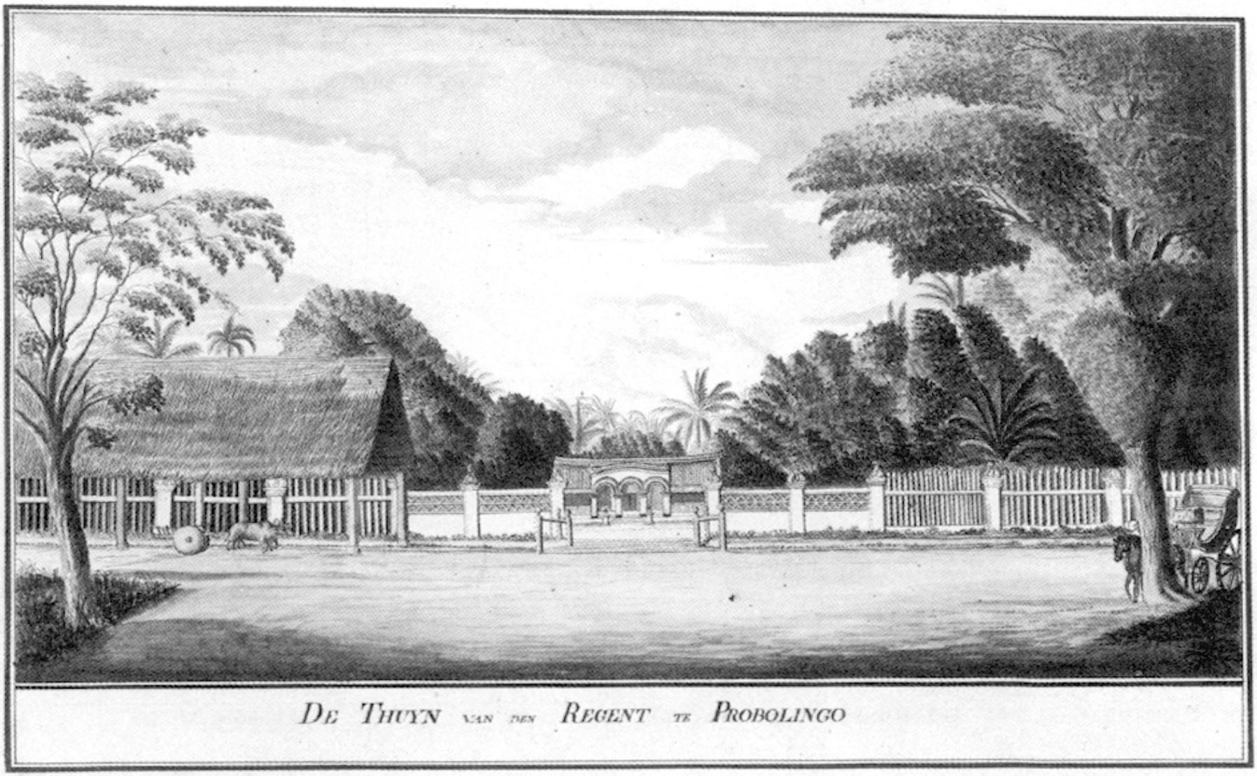 A 19th century engraving of the residence of Han Kik Ko, Majoor der Chinezen as Regent of Porbolinggo (Collection Nicolaus Engelhardt)